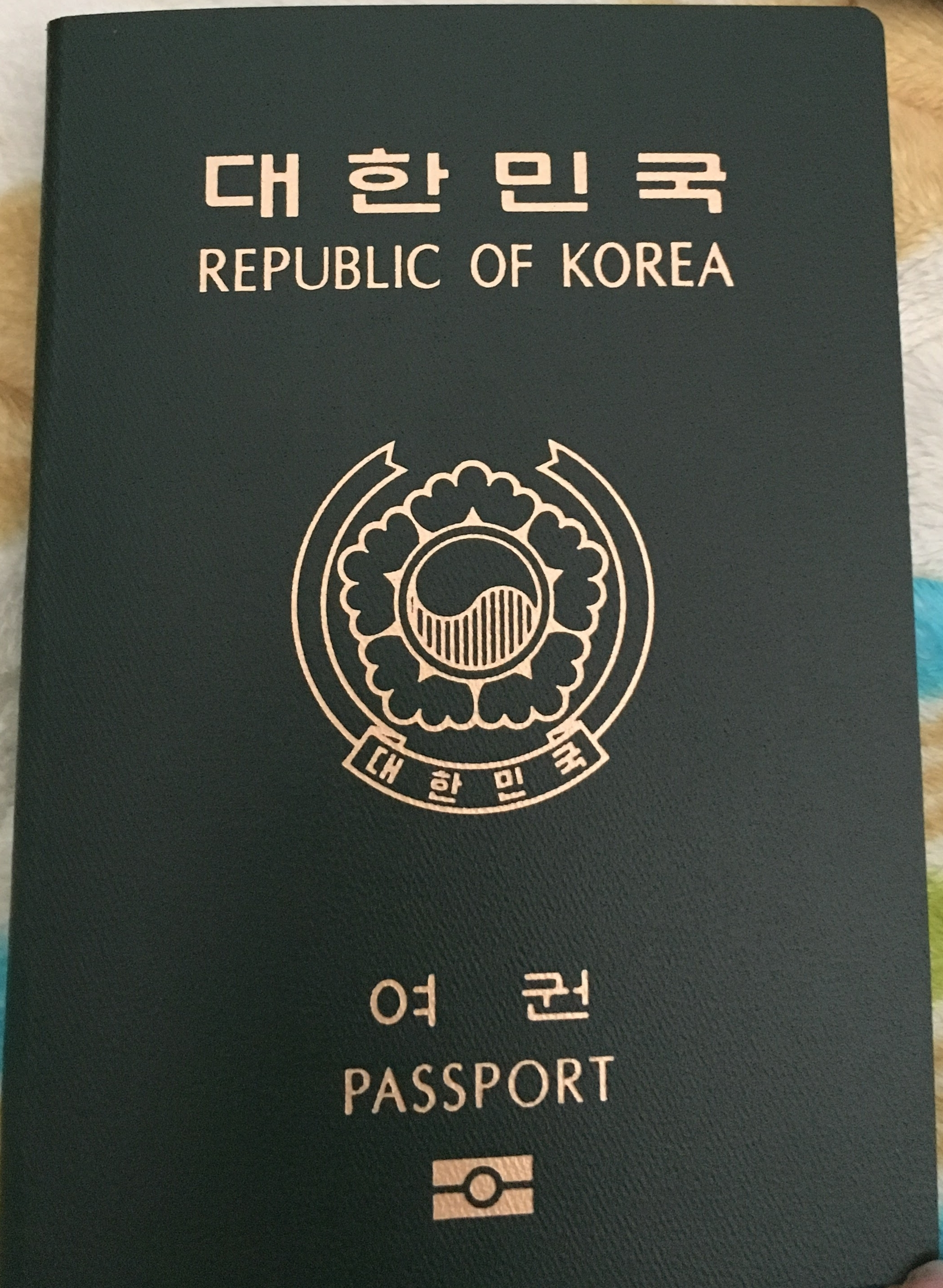 Biometric passport of South Korea.